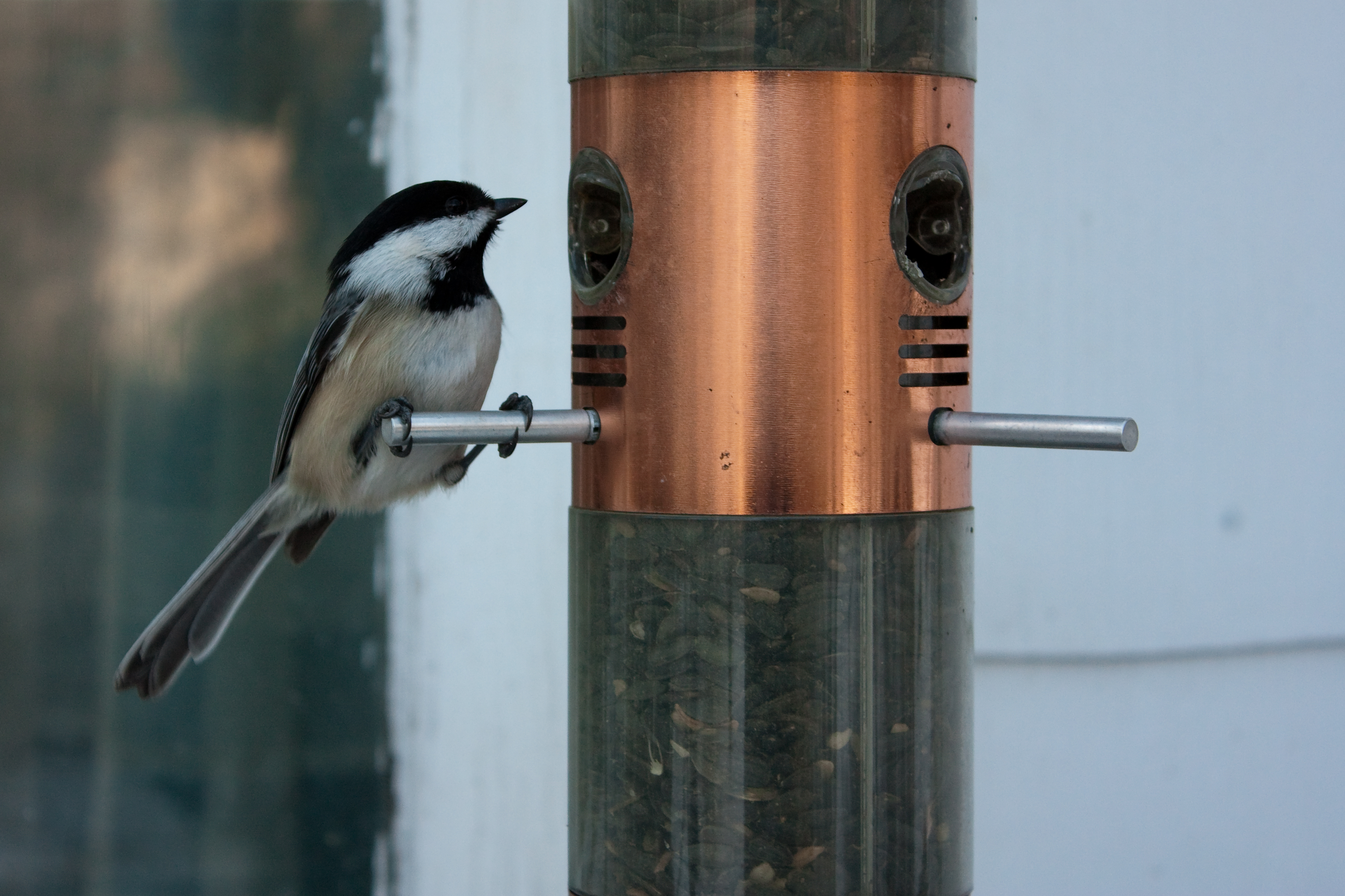 Black-capped Chickadee at a feeder